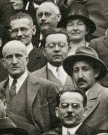 Hans von Halban (middle row, left), Adolf Smekal (middle), and George de Hevesy (with hat), Bunsen-Congress, May 1928 at Munich